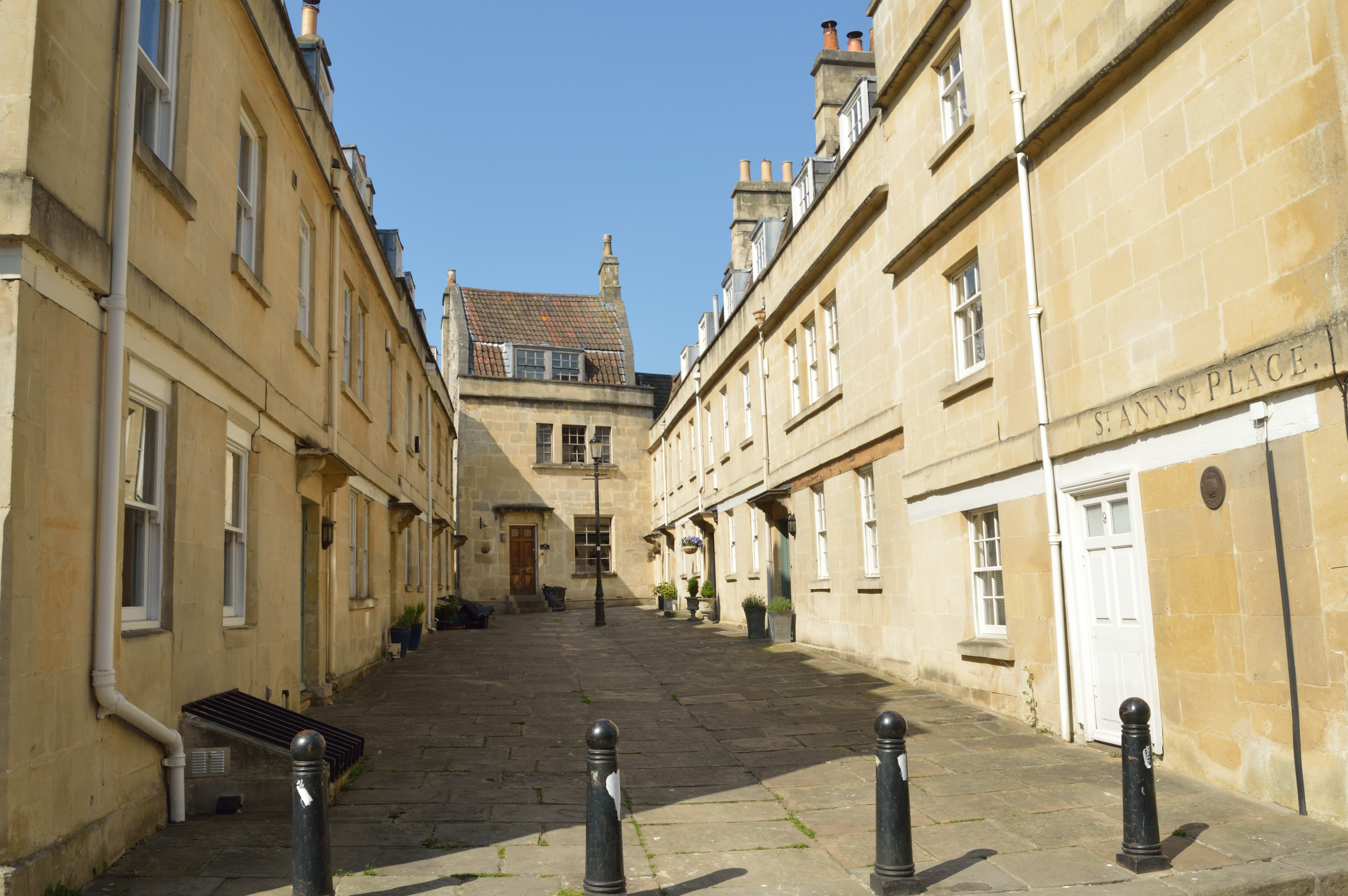 St Ann's Place, Bath, from New King Street. This street was threatened with demolition for road widening in the 1970s, but after efforts by Adam Fergusson and Lord Snowdon (eg 'The Sack of Bath', 1973) was restored by 1987.[1][2]